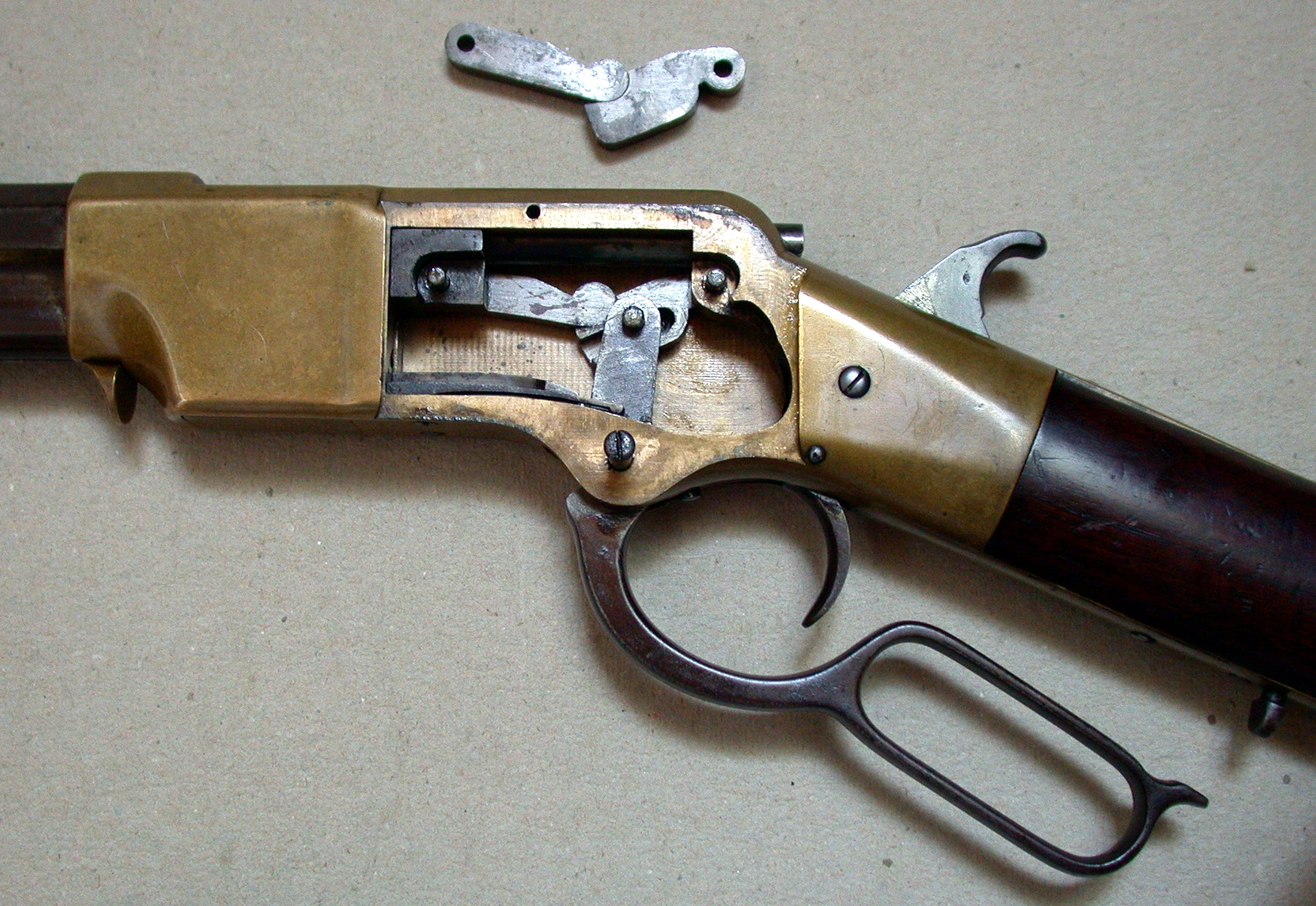 Mod 1860 Henry rifle, Receiver open, toggle-joint